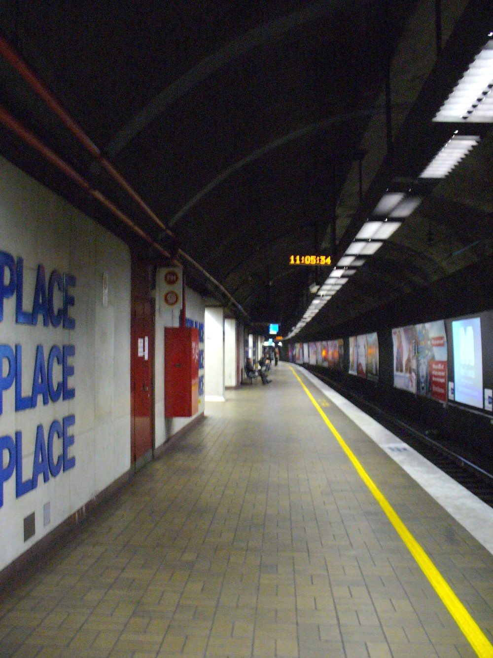 Platform 2 (Bondi Junction bound platform) at Martin Place railway station, Sydney